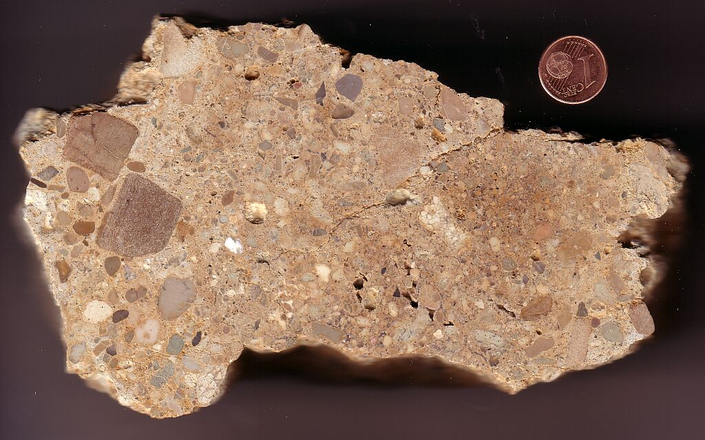 Impact feature: A suevite breccia from the Rubielos de la Cérida impact structure.